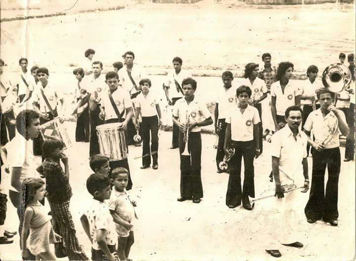 MusicosTraipu